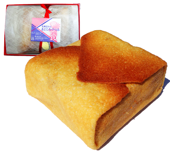 Magokorodutumi,a speciality of Hirosima